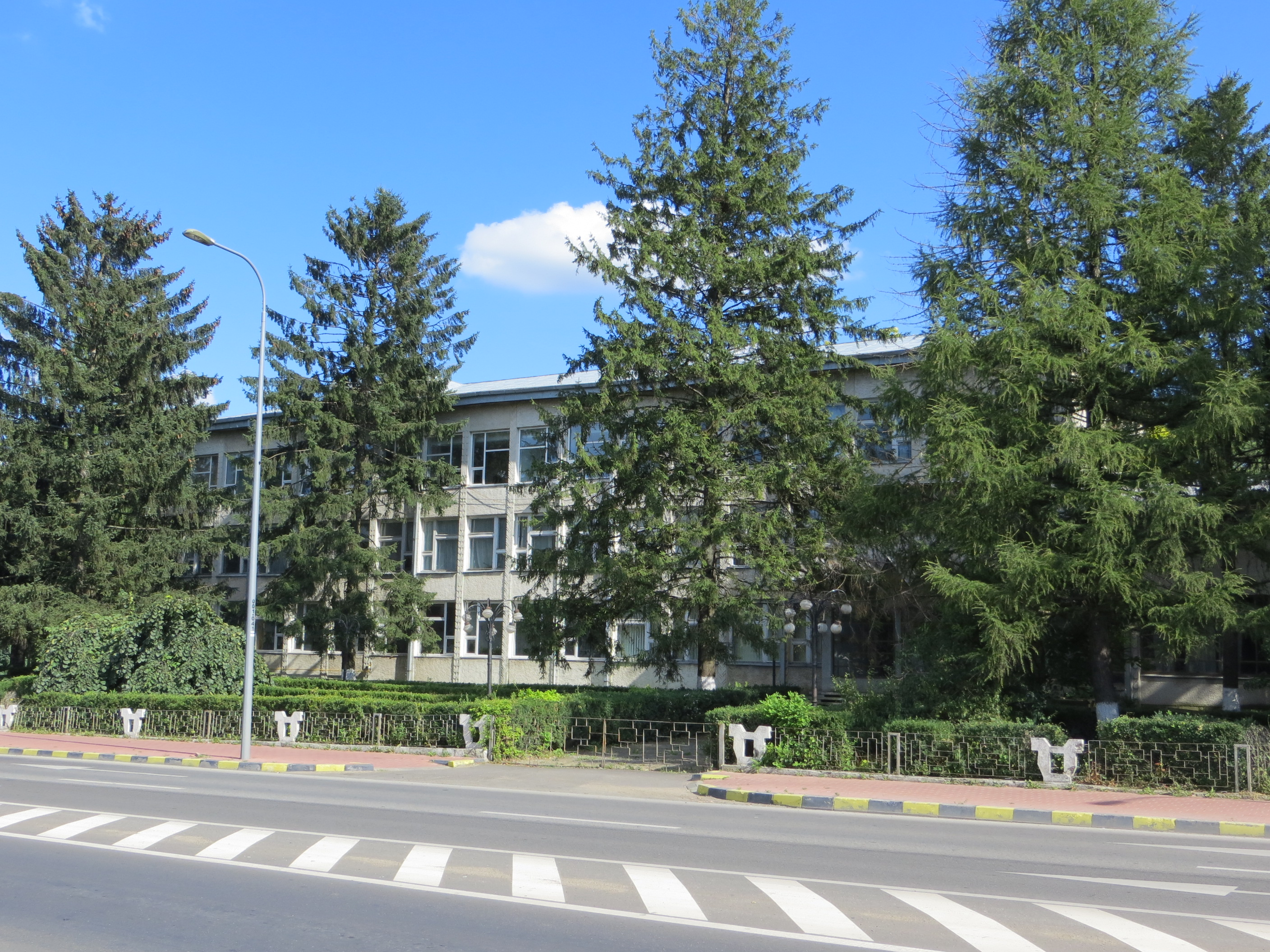 Institute of Agricultural Research and Development in Suceava.